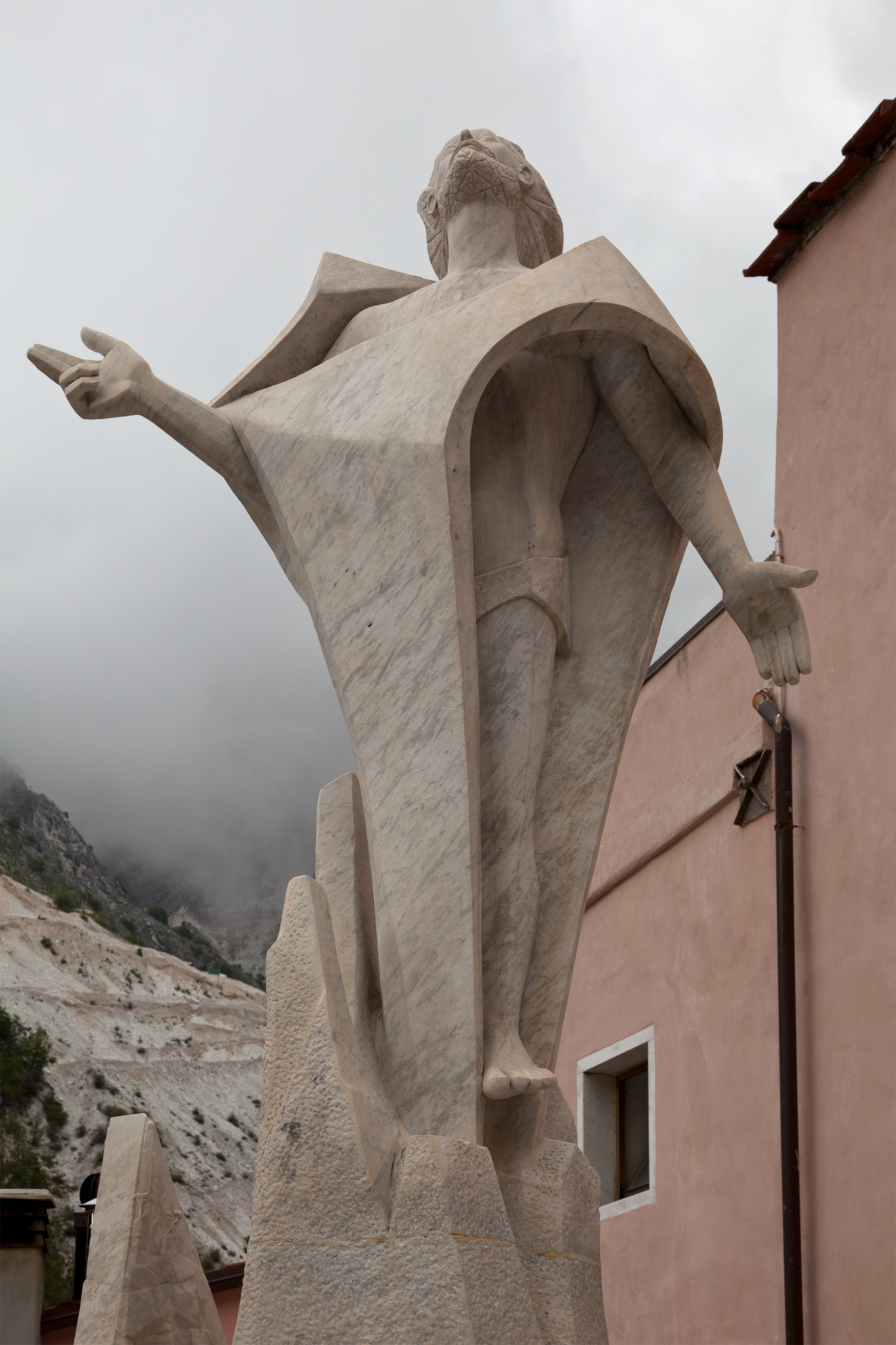 Colonnata, "Al Cavatore", monument to the quarry workers